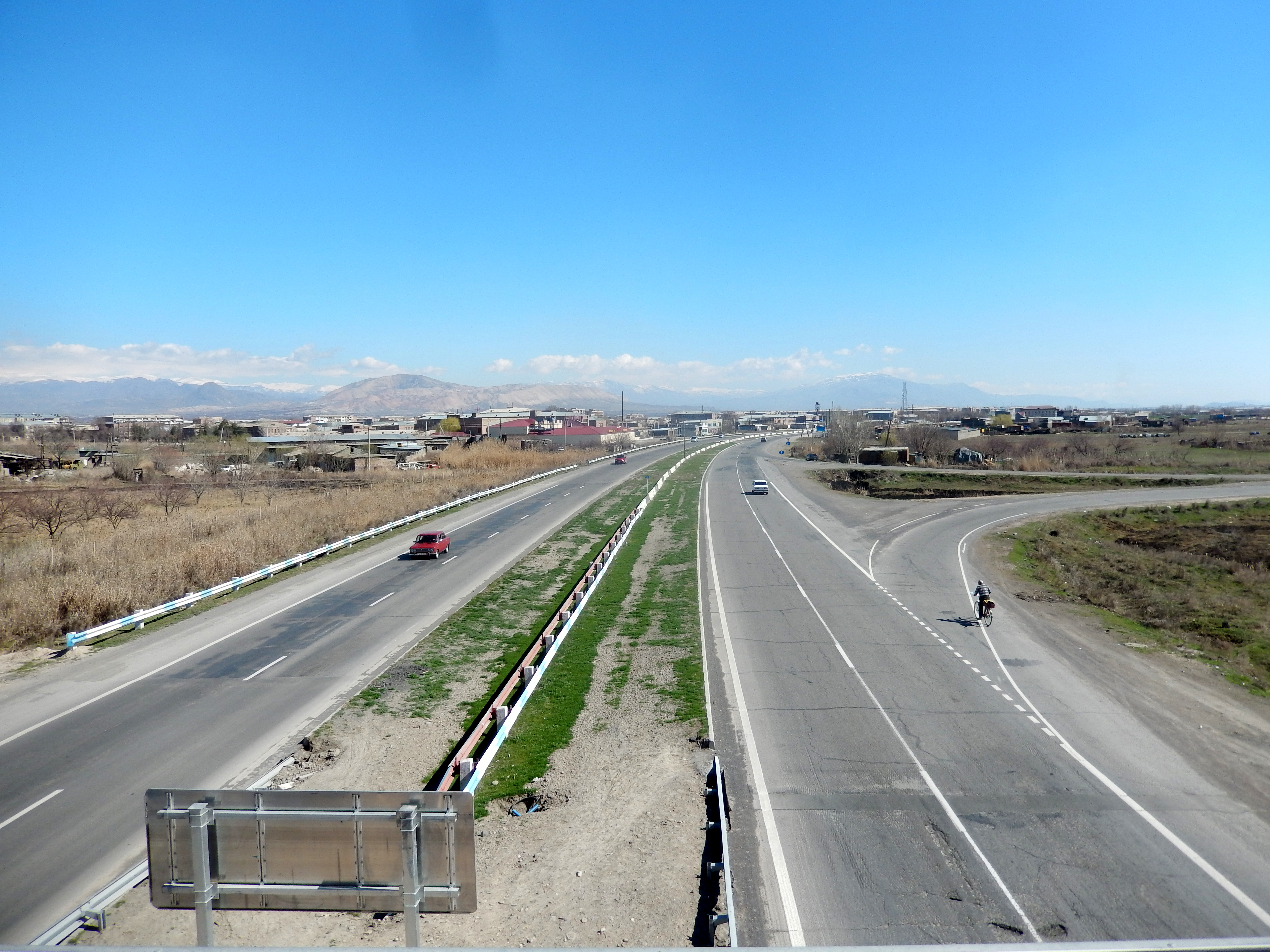 M2 highway, Armenia